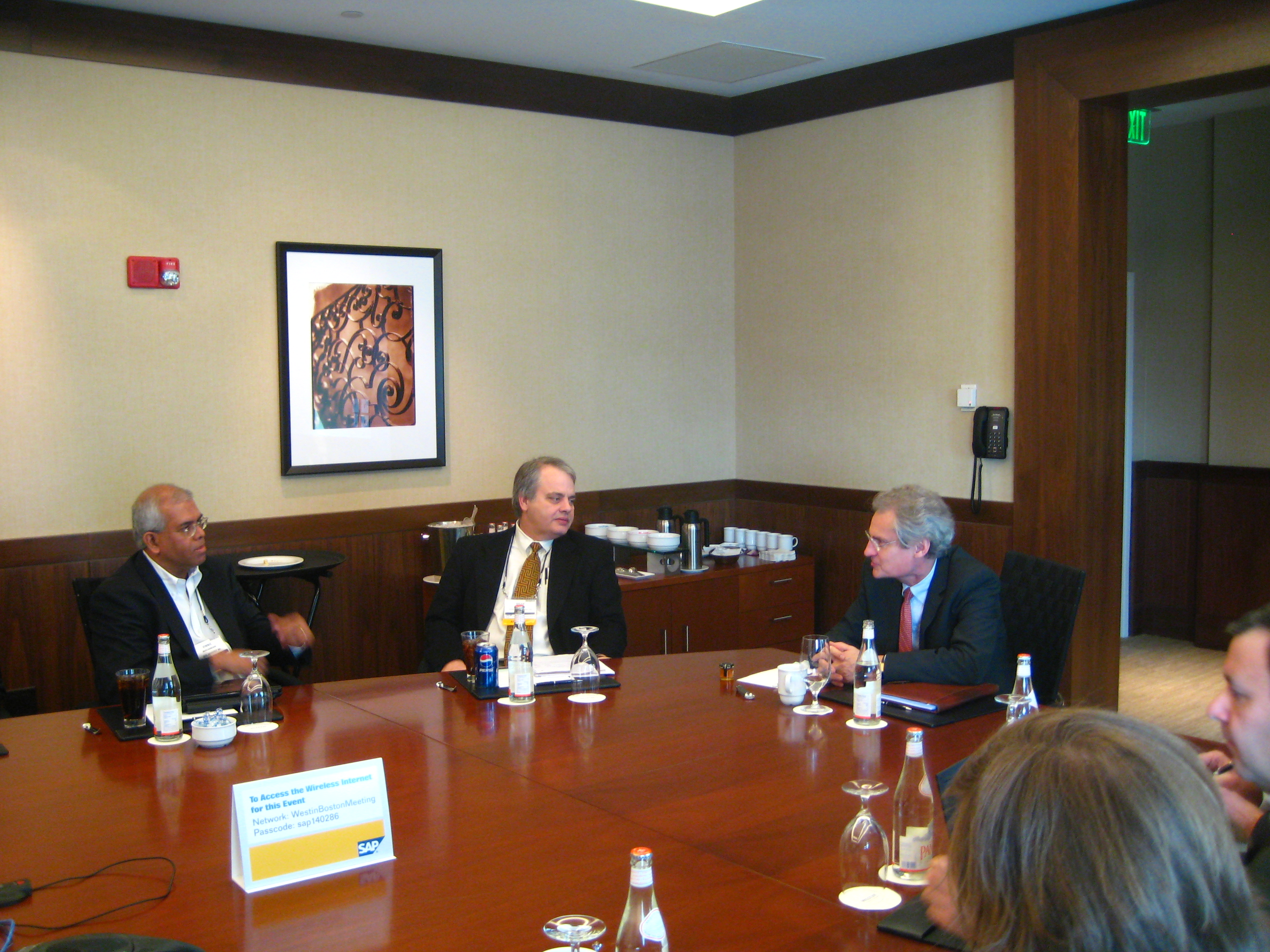 SAP CEO Henning Kagermann with the Enterprise Irregulars at the SAP Influencer Summit, December 2007, Boston